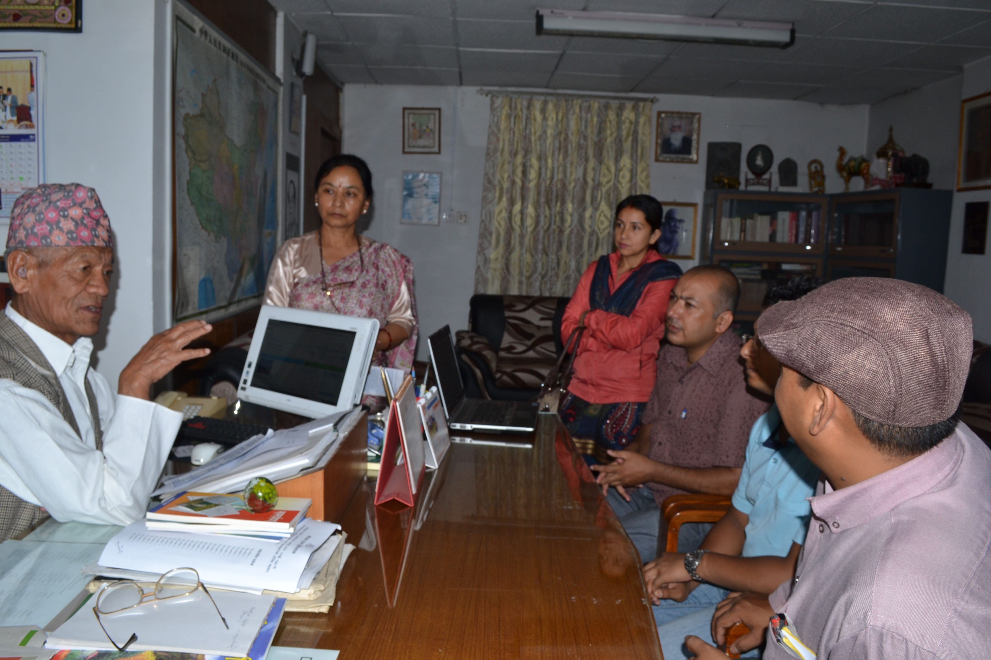 Tilbikram Subba with Wiki Committe.